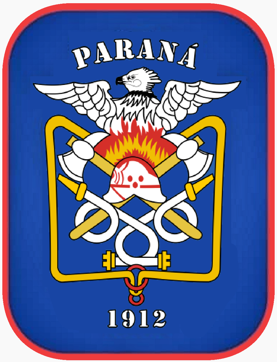 Badge of Firefighters of Paraná - Brazil.